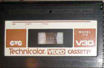 CVC video cassette. Provided by all rights released.